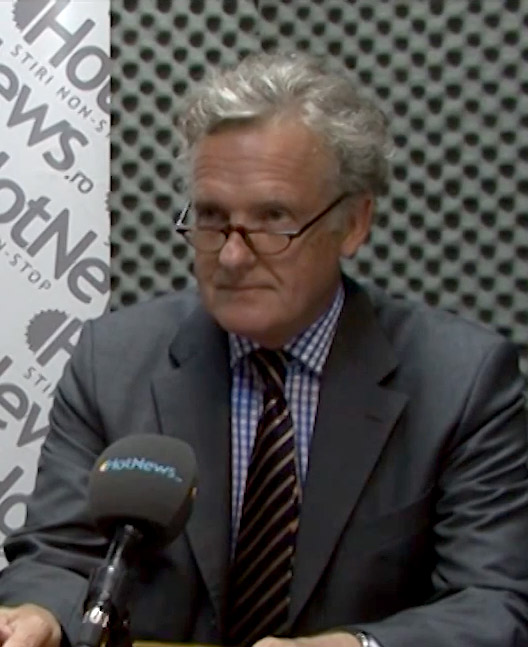 Andreas von Mettenheim, German diplomat